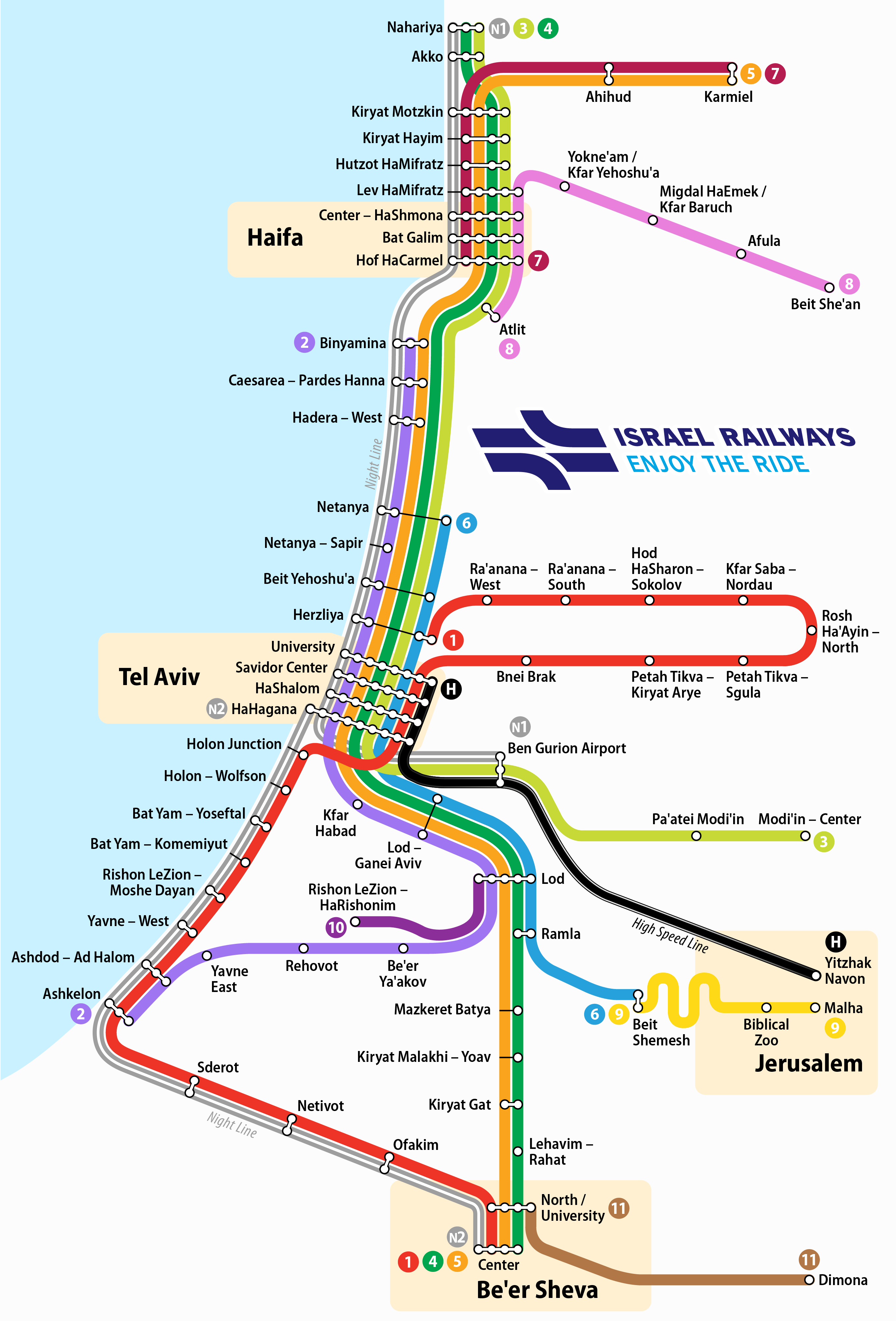 Railway Network of Israel (Jerusalem lines are operated by Palestinian Railway